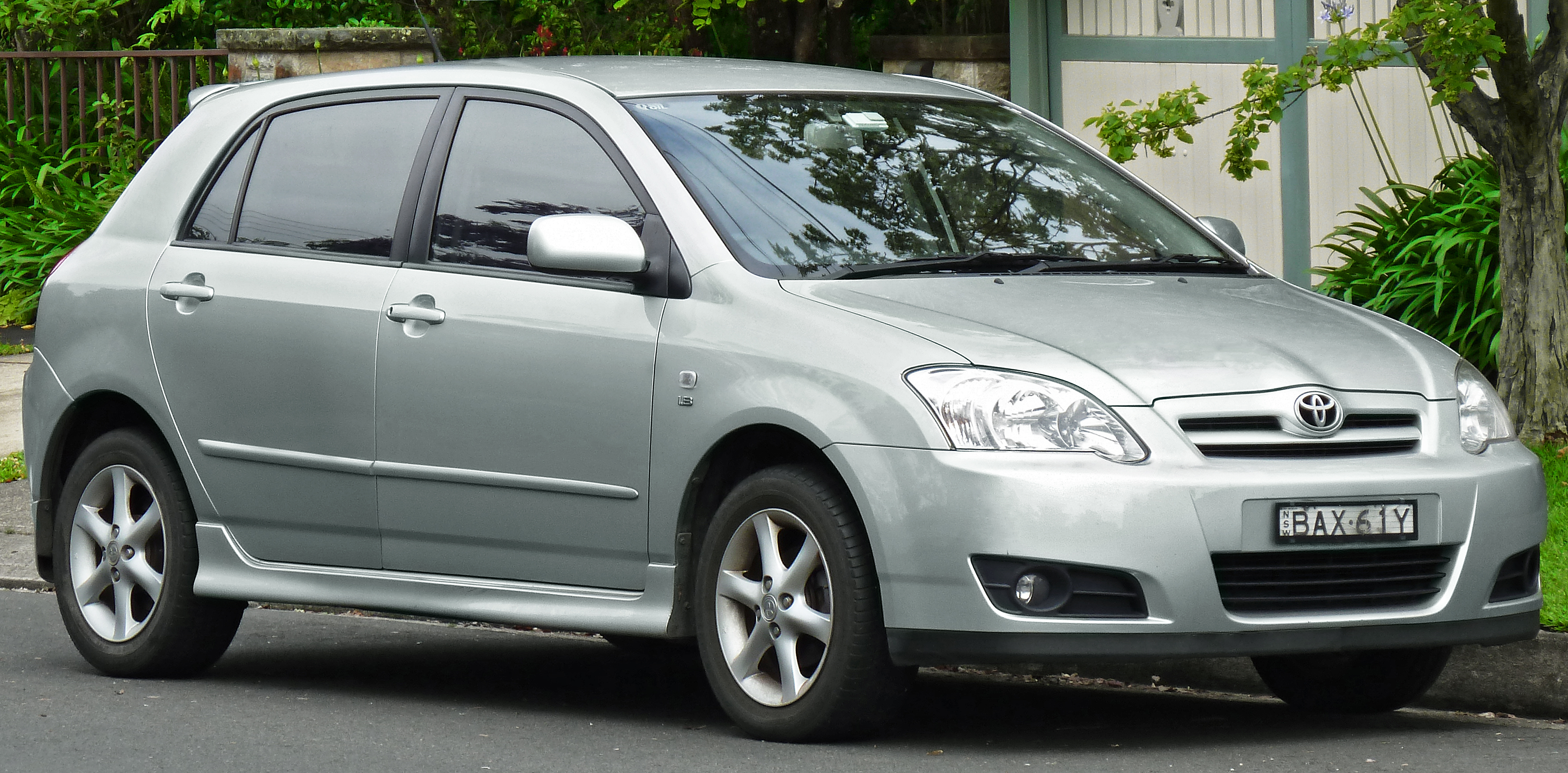 2004–2007 Toyota Corolla (ZZE122R 5Y) Levin 5-door hatchback. Photographed in Gordon, New South Wales, Australia.